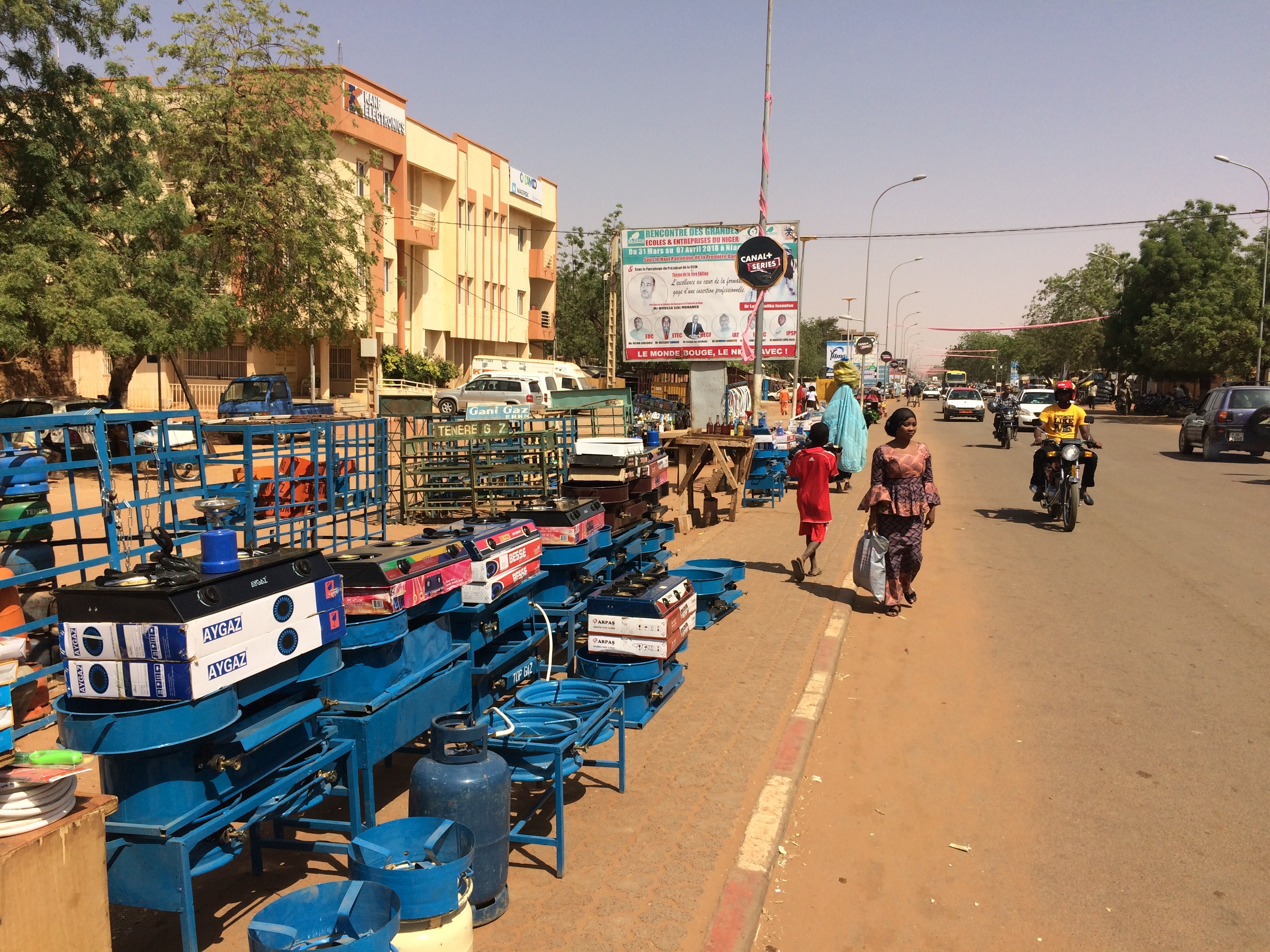 Sidewalk sale of cooking stoves and gas burners on the Avenue de l'Entente (Cités neighborhood), Niamey, Niger.